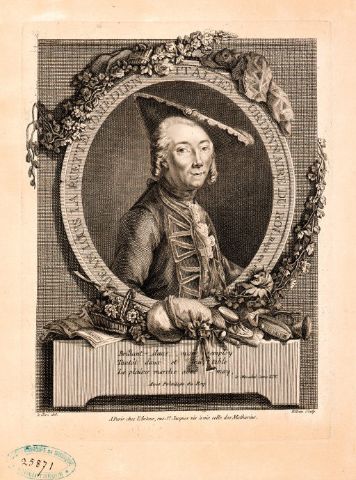 Portrait of Jean-Louis Laruette (1731-1792), French opera singer and composer